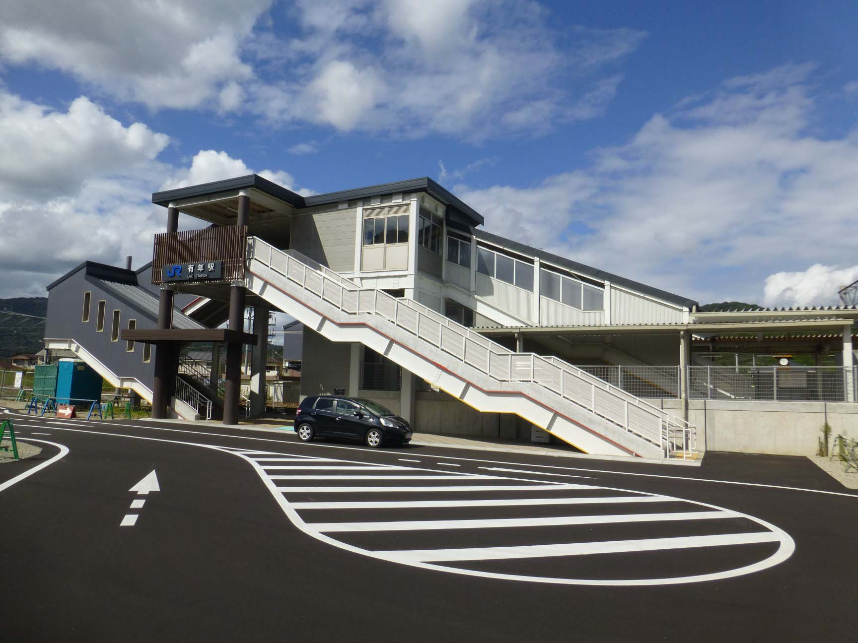 South side of Une railway station on Sanyo mainline. After the station building was reconstructed to over-track type.